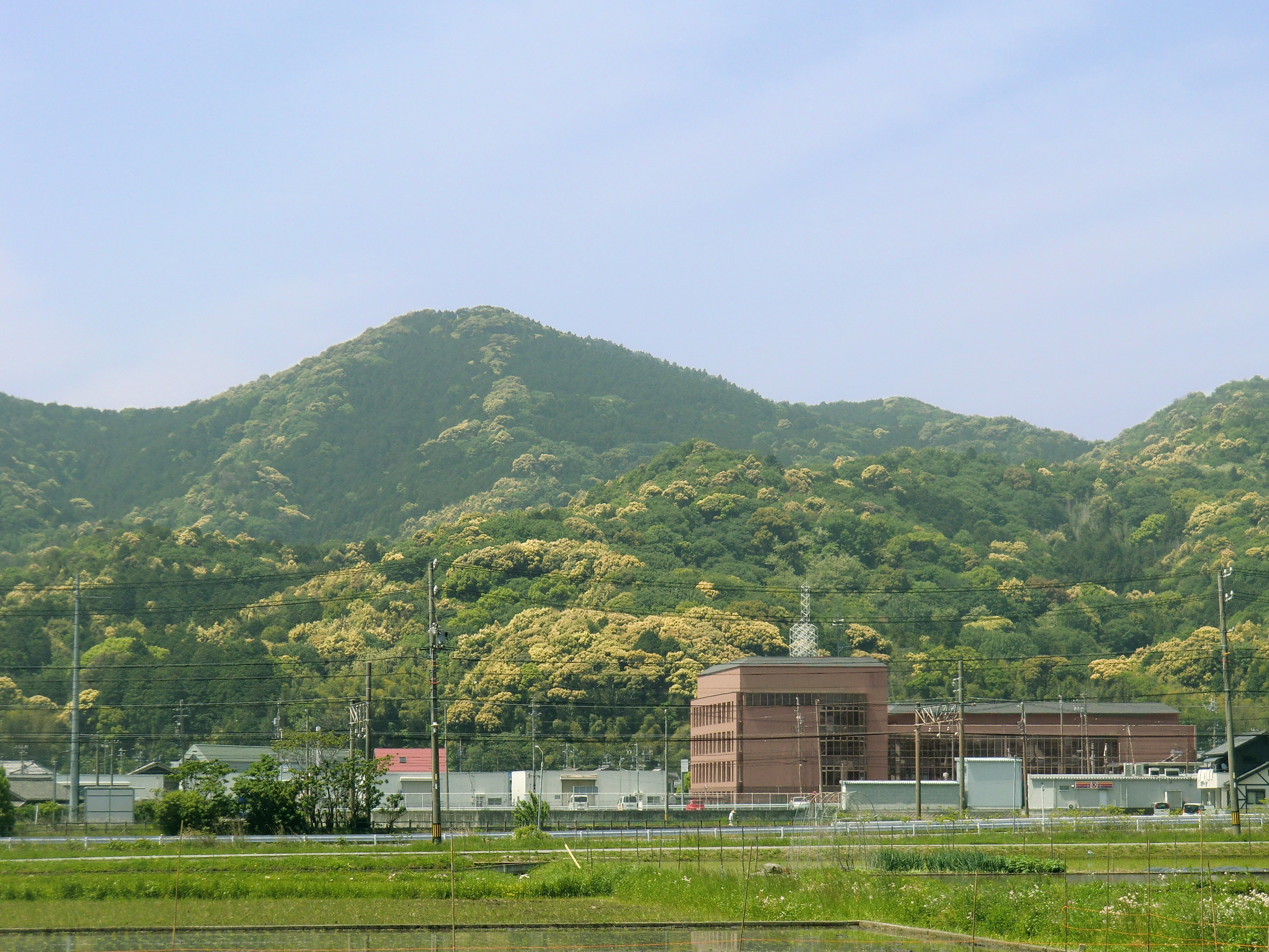 Mt. Miyaji (宮路山) and Toyokawa City Otowa Branch Office, located at Akasaka , Toyokawa, Aichi, Japan